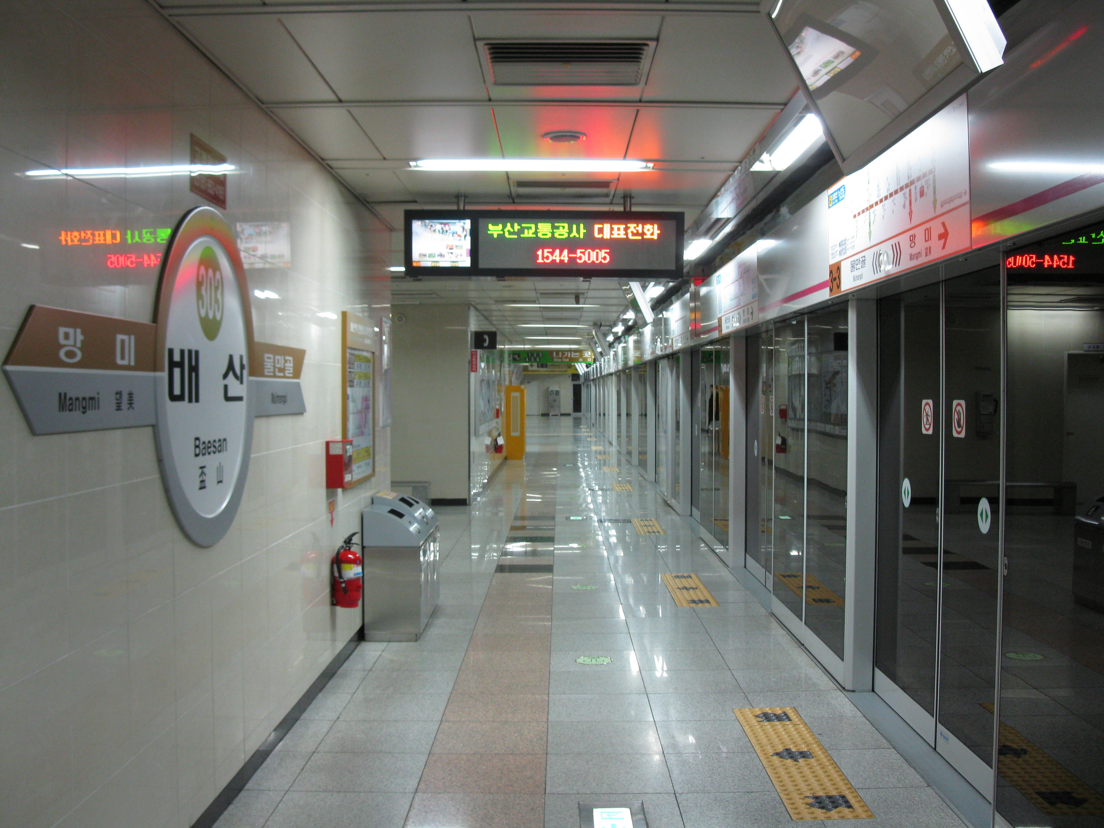 A platform of Baesan Station, Busan Subway Line 3